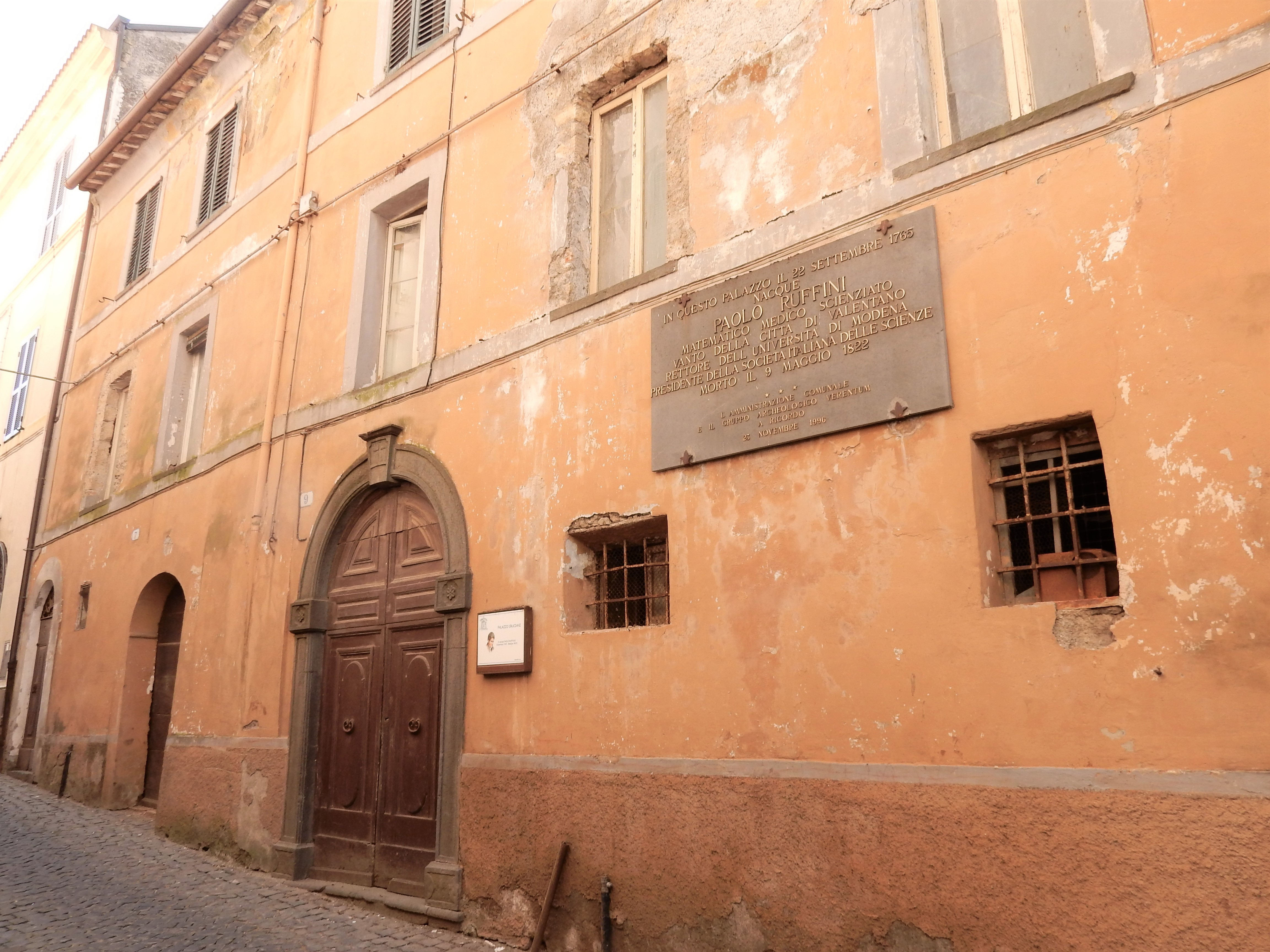 birthplace of Paolo Ruffini in Valentano